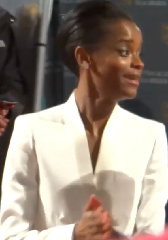 Letitia Wright at the 2019 BAFTA Red Carpet